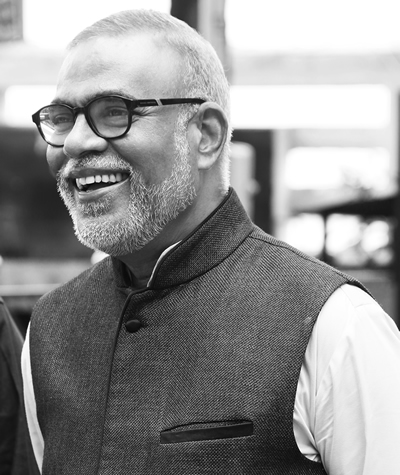 photo of Dr Jadhav